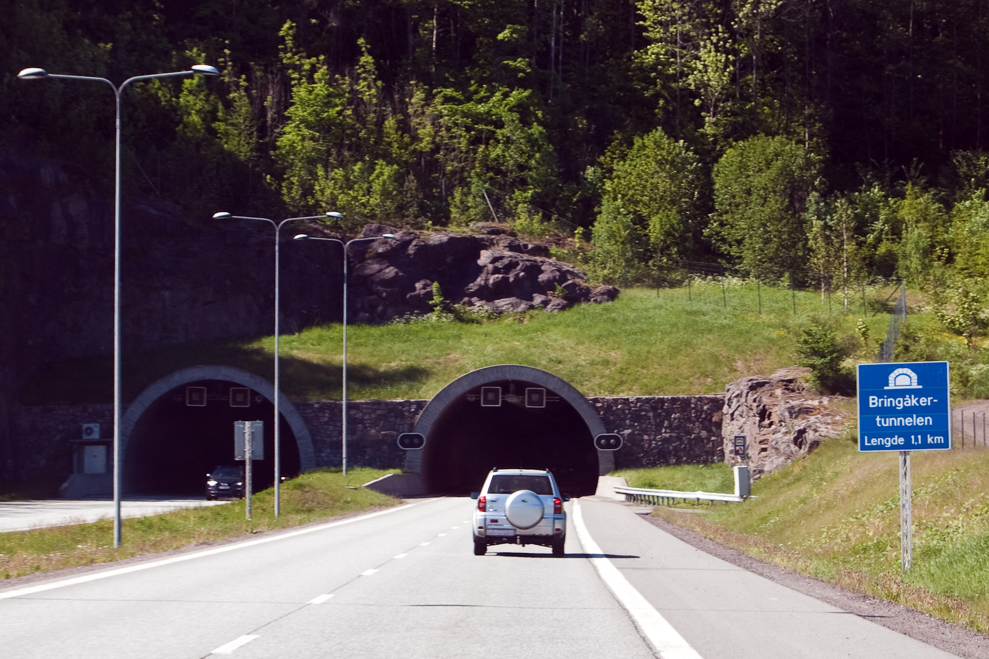 Bringåkertunnelen, a tunnel on E18 in Vestfold, Norway.